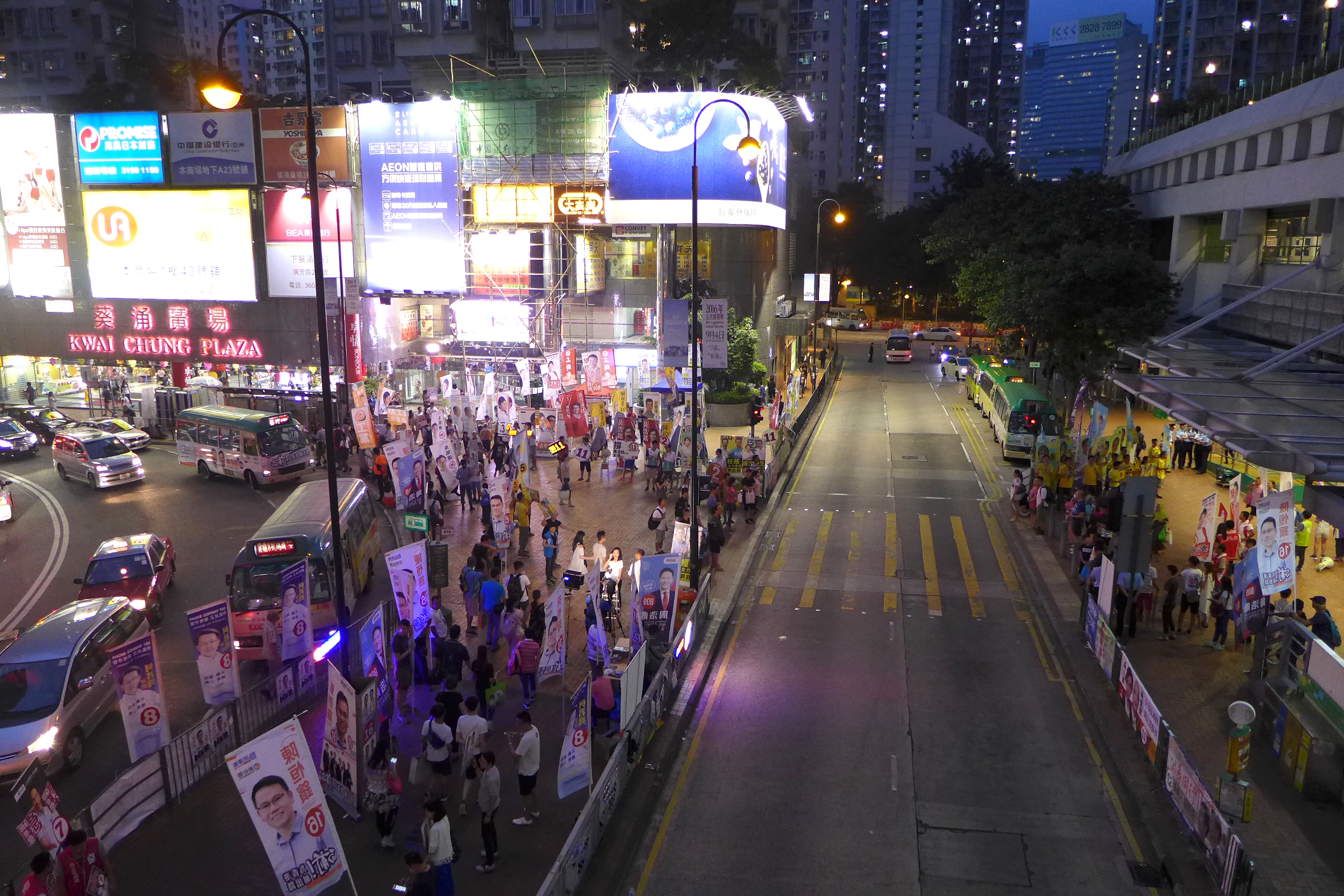 2016 Hong Kong legislative election NT West Kwai Fong Promotion